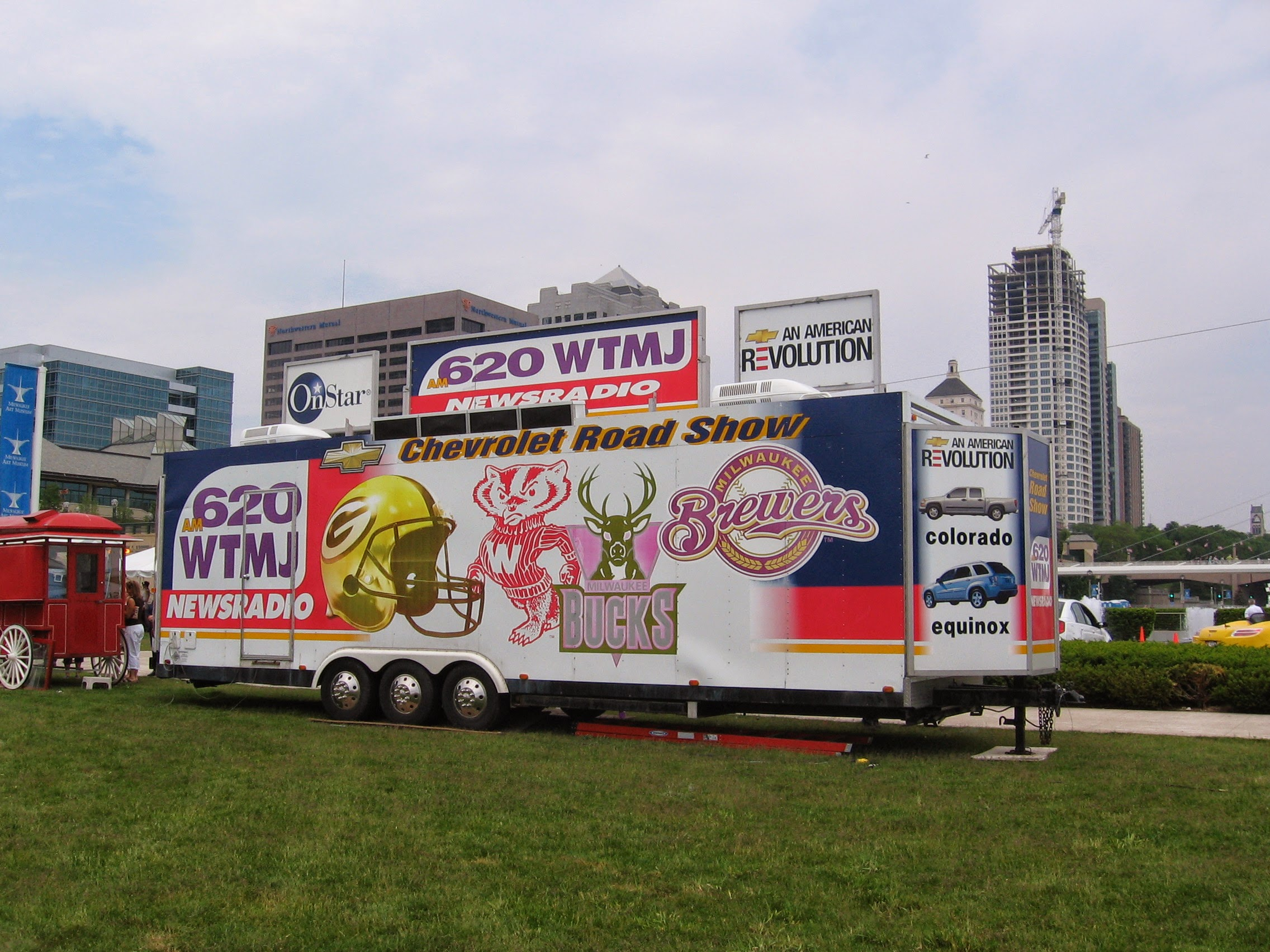 Attended festivals, the Wisconsin State Fair, and other events